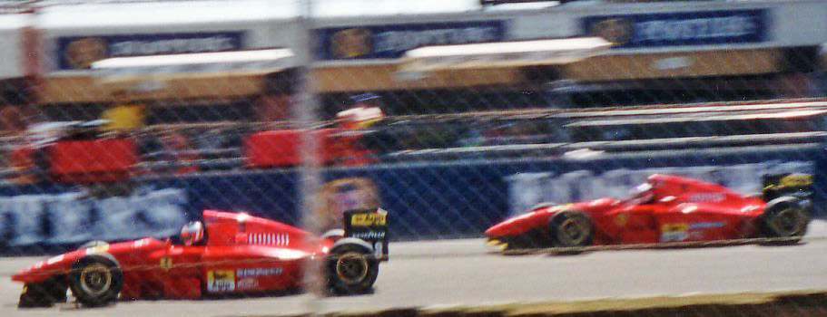 Gerhard Berger and Jean Alesi's 1994 Ferraris at the 1994 British Grand Prix.